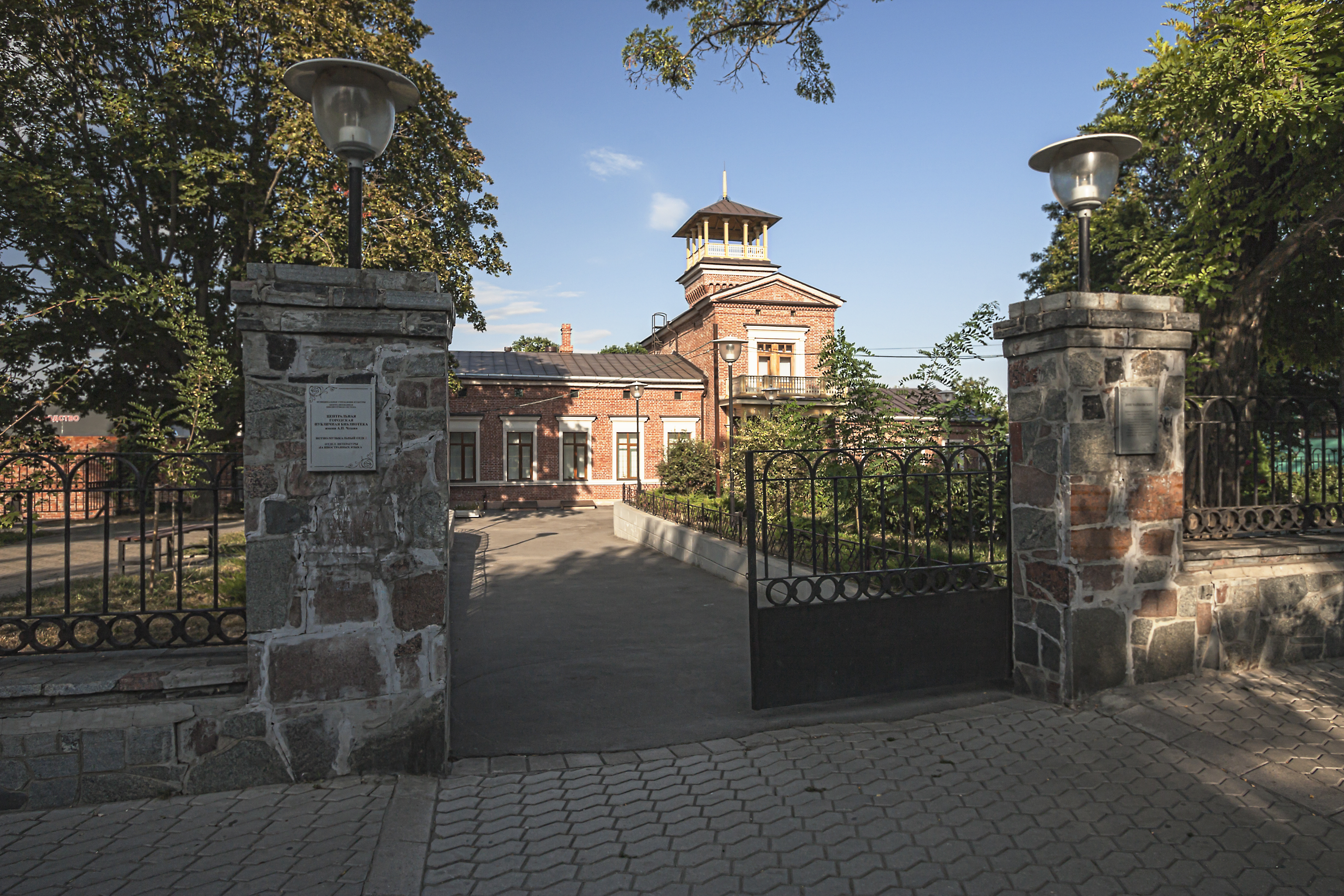 The building of the municipal library: Greek Street 56, Taganrog, Rostov region.